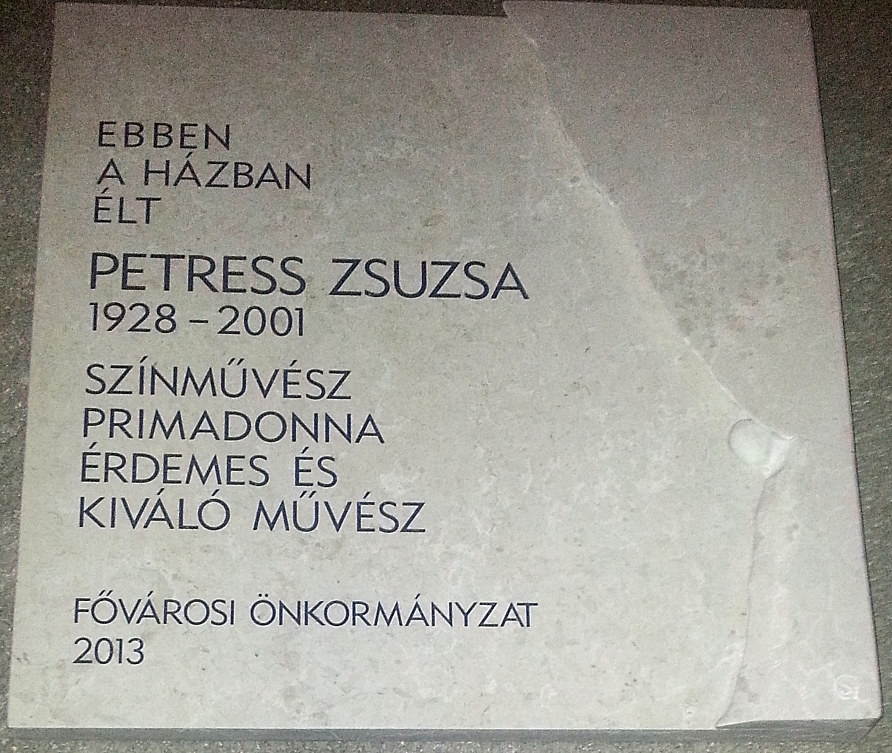 Zsuzsa Petress commemorative plaque in Budapest District XII, Kiss János altábornagy Street No 41. Created by Géza Sztremenyi.